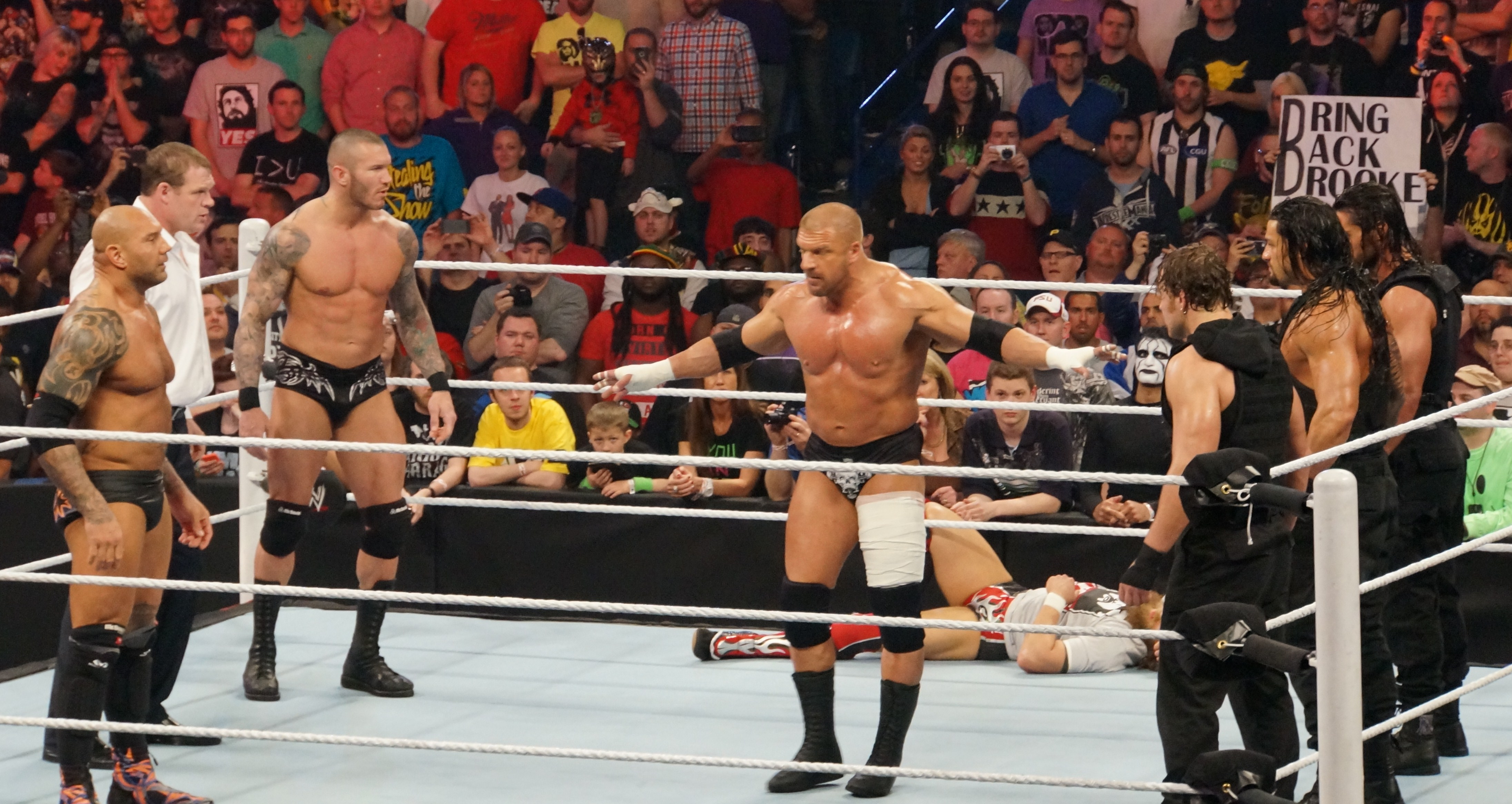 Triple H trying to play mediator between Evolution (group to his right) and the Shield (group to his left). From left to right: Bastista, Kane, Randy Orton, Triple H, Dean Ambrose, Roman Reigns and Seth Rollins. Lying prone in the ring behind Triple H is Daniel Bryan